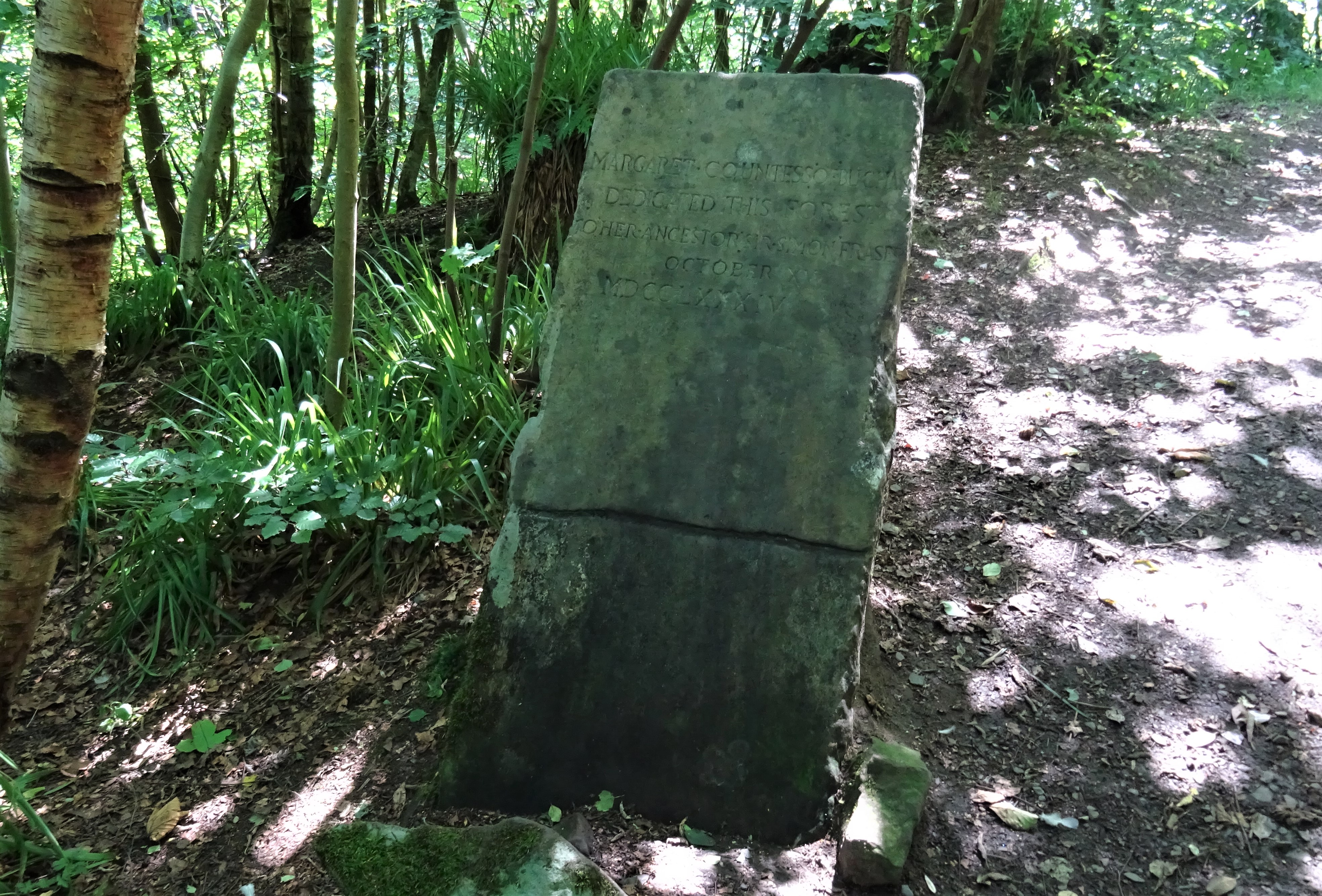 Sir Simon Fraser Memorial Stone, Almondell and Calderwood Country Park, West Lothian, Scotland. Fraser was a Scottish patriot who fought alongside William Wallace and Robert the Bruce. He was executed by King Edward I.